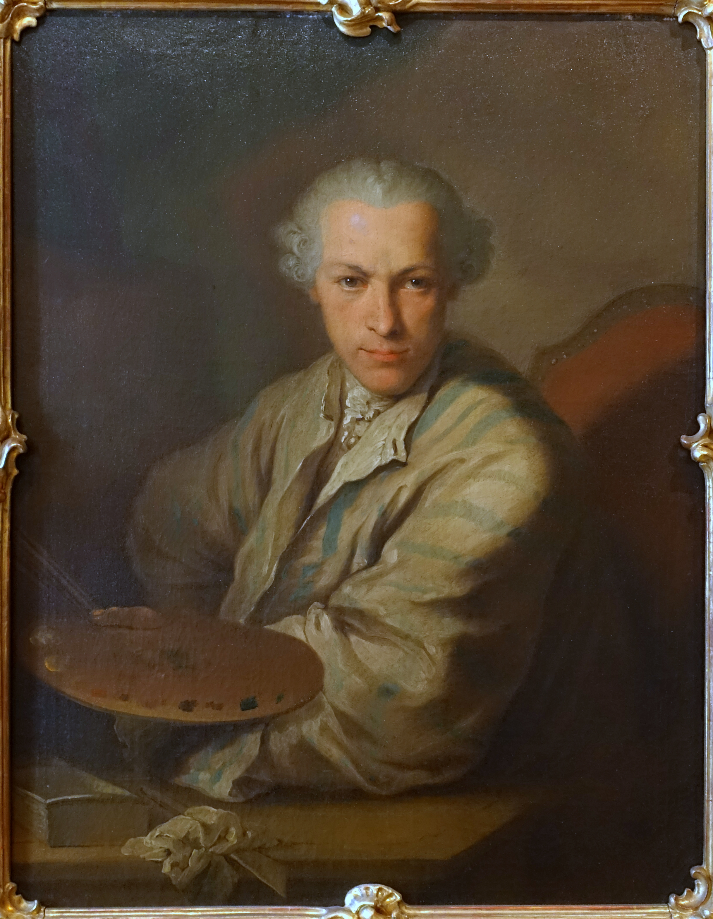 Exhibit in the Mainfränkisches Museum - Würzburg, Germany.